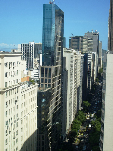 Rio Branco Avenue, Rio de Janeiro. The Manhattan Tower (Edmundo Musa, 1992-93) is in the middle.